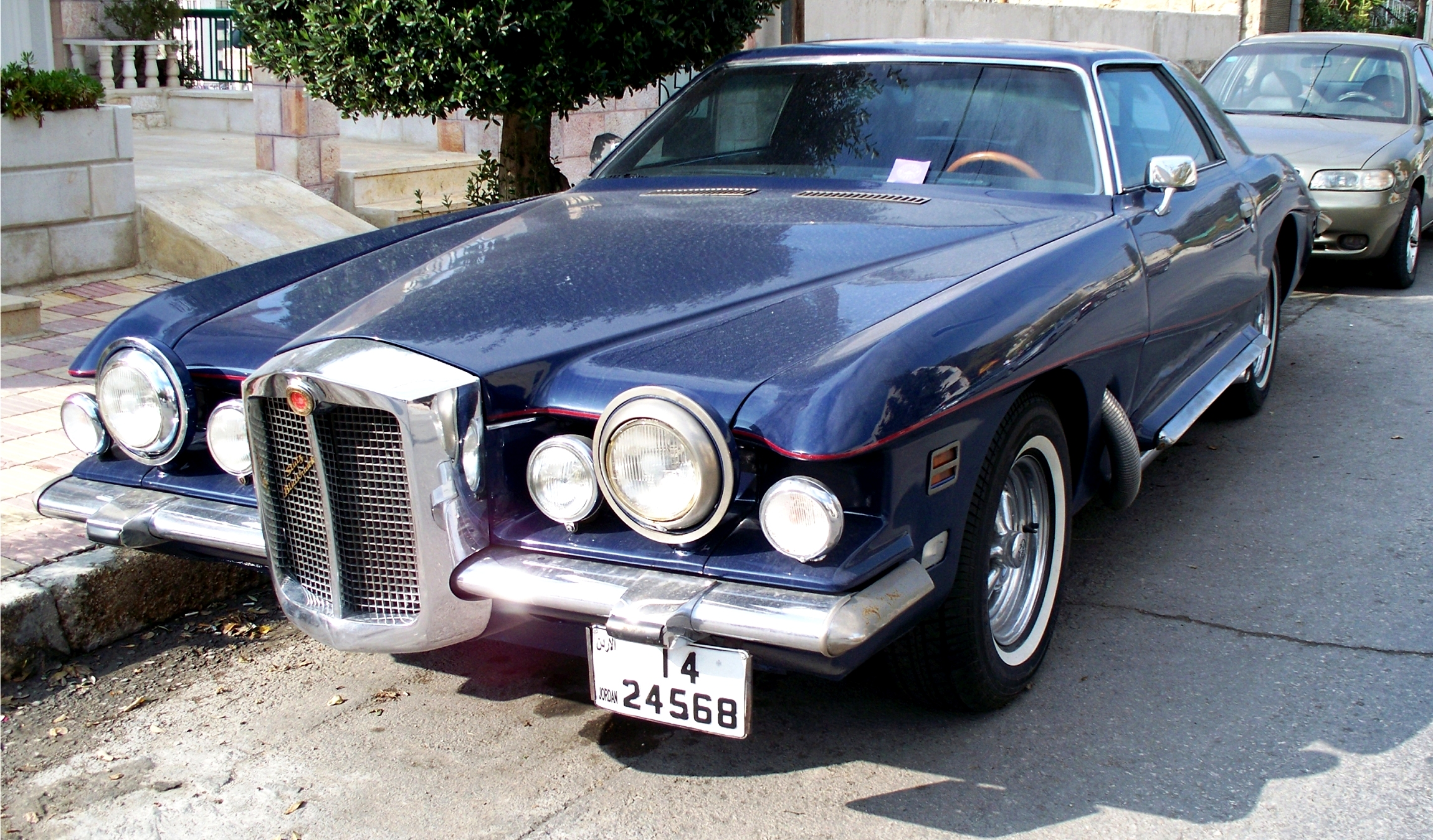 A Stutz Blackhawk III Coupé in Jordan in 2009.